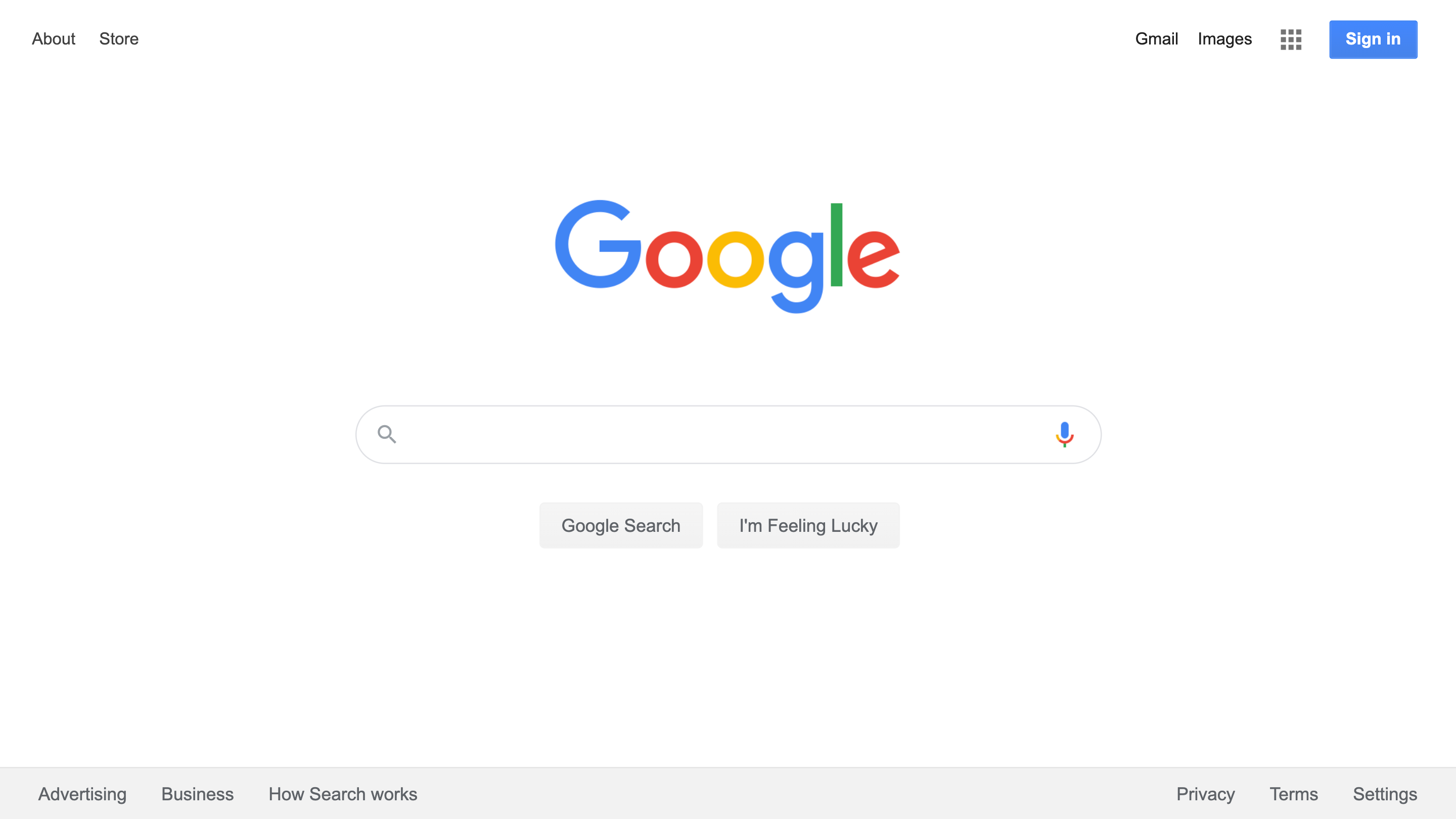 The Google search homepage, viewed in Google Chrome.